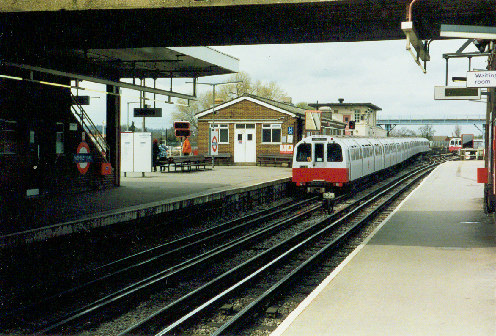 Wembley Park Station. No doubt, a busy station in the Football Season.